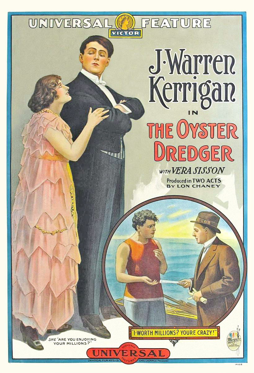 Poster from the 1915 film The Oyster Dredger.